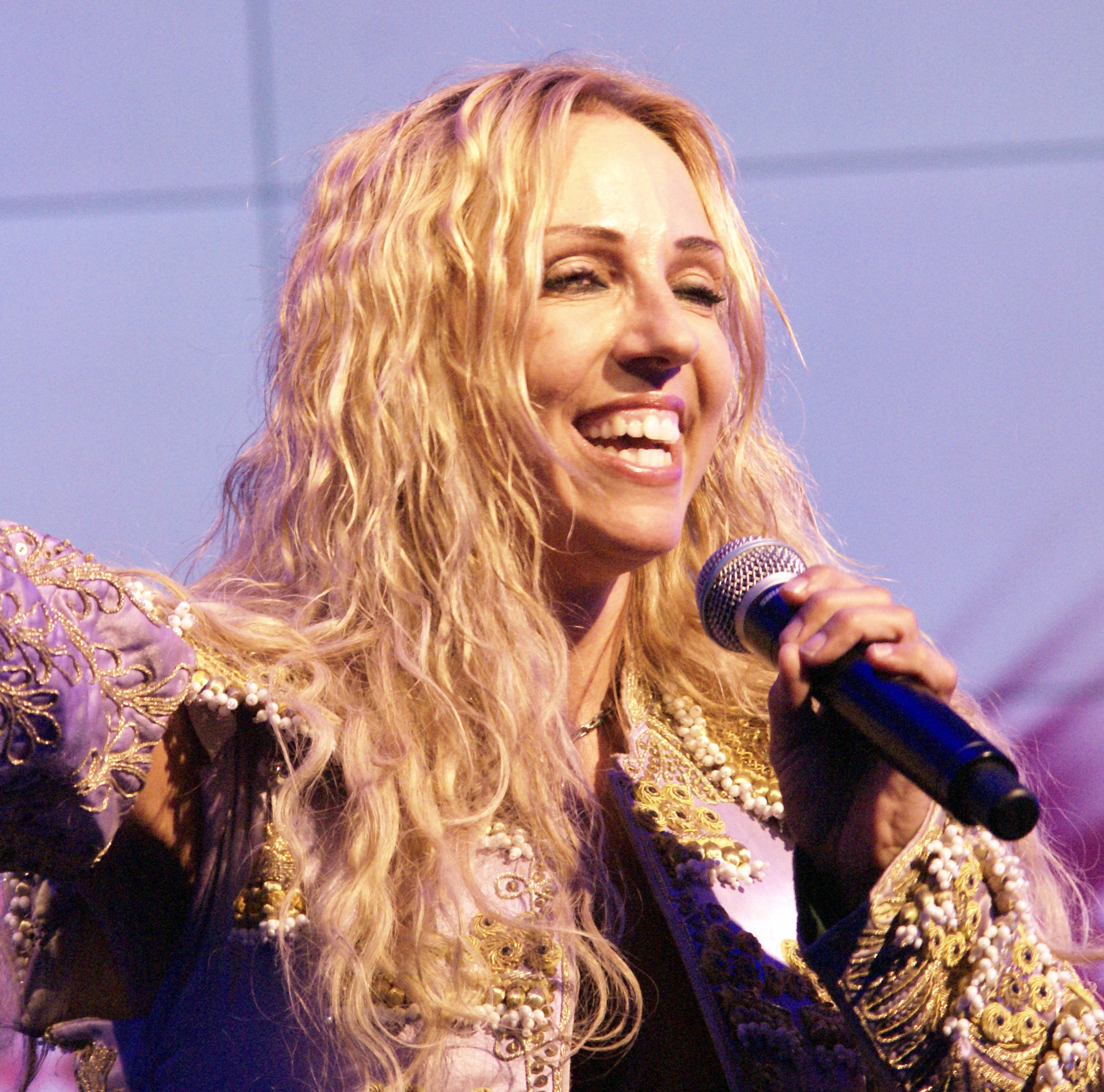 Dutch singer Loona (Marie-Jose van der Kolk) performing at the Westside shopping and leisure complex in Bern, Switzerland, June 12 2009.